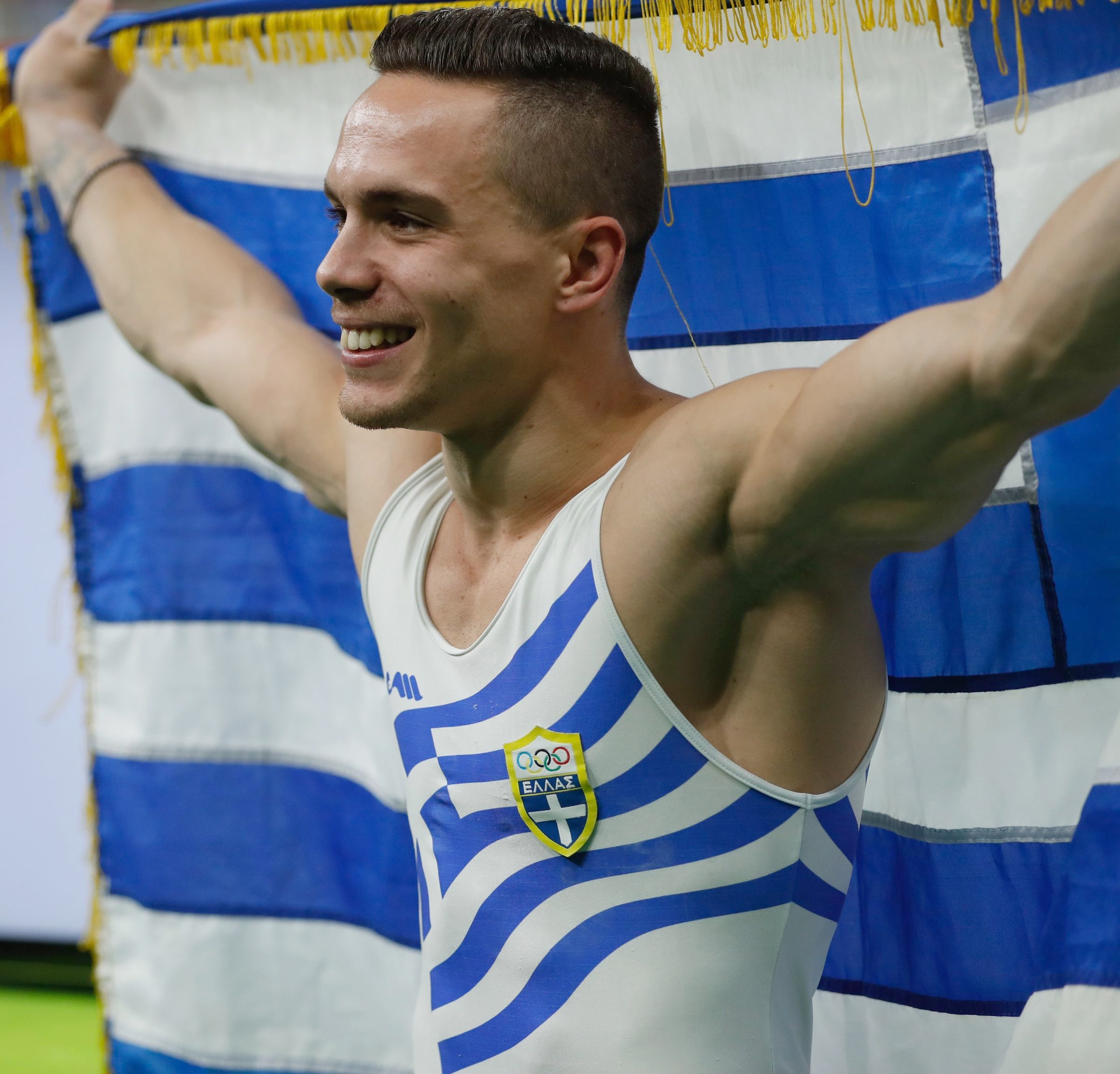 Competitions in gymnastics at the Olympics 2016. Discipline - rings.